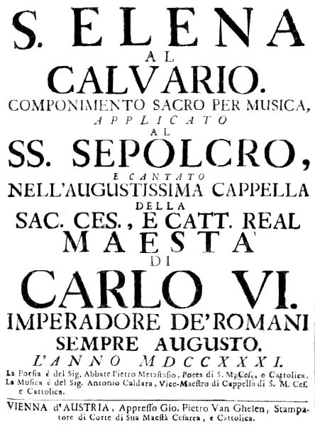 Antonio Caldara - Sant’Elena al Calvario - titlepage of the libretto - Vienna 1731